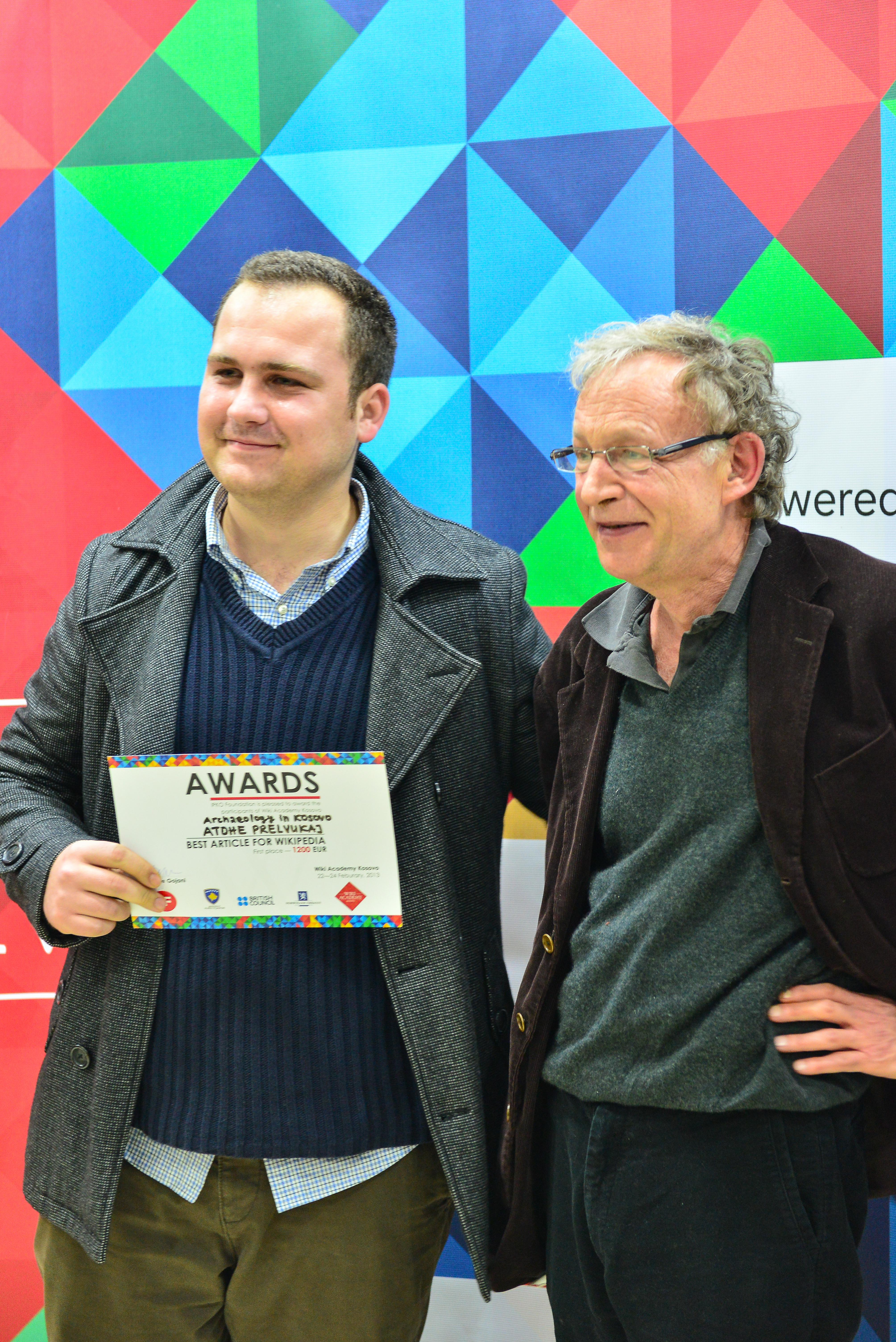 Award ceremony, Wiki Academy Kosovo 2013.